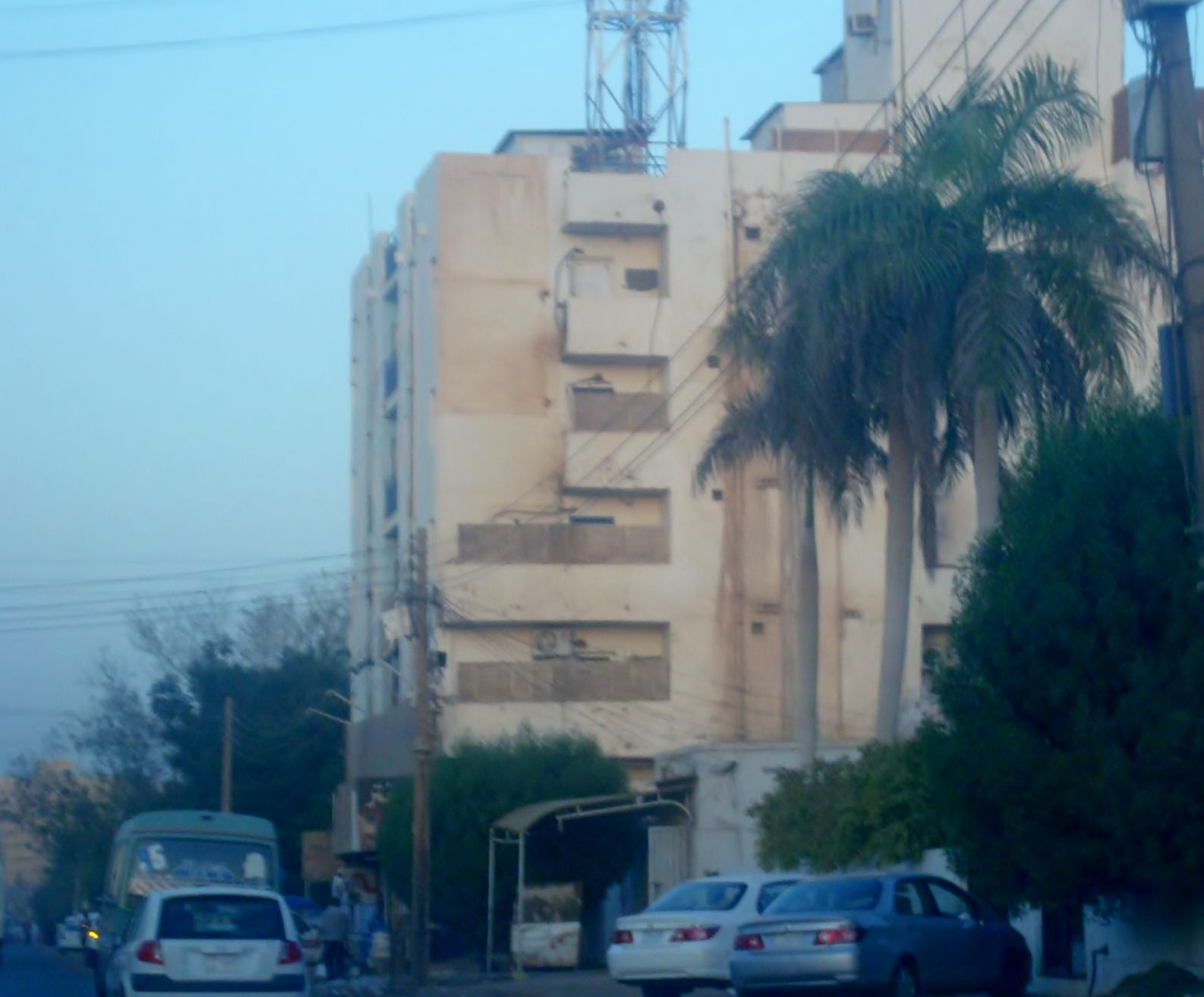 شارع الزعيم الازهري-المستشفى الدولي –الخرطوم بحري